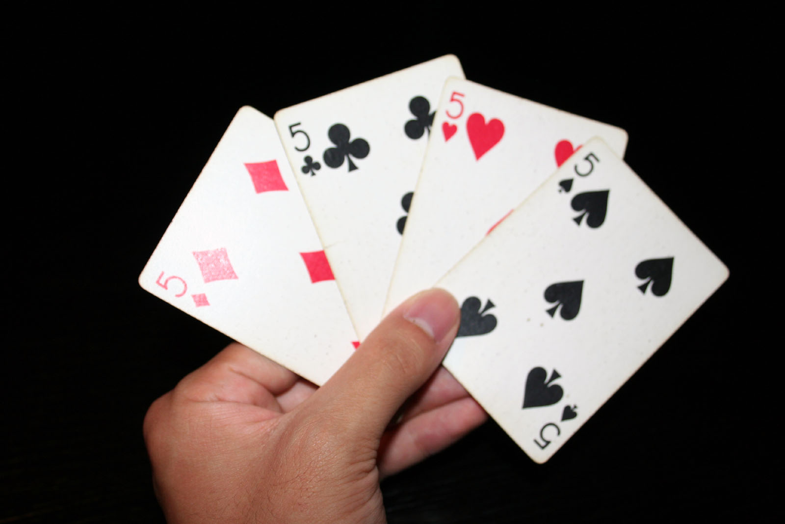 A hand holding the four 5's in a standard deck of cards: Diamonds, Clubs, Hearts, Spades.